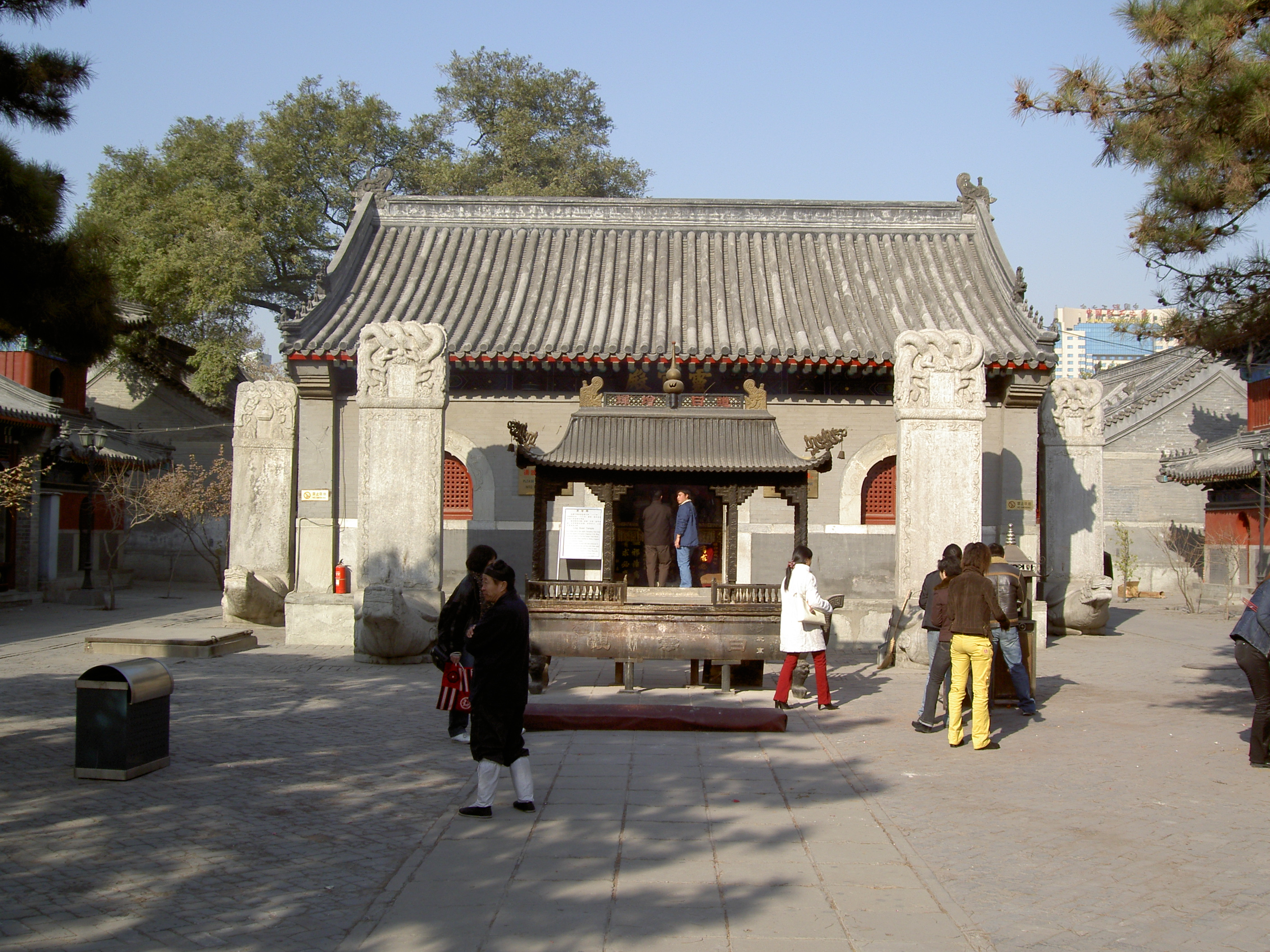 The White Cloud Temple of Beijing